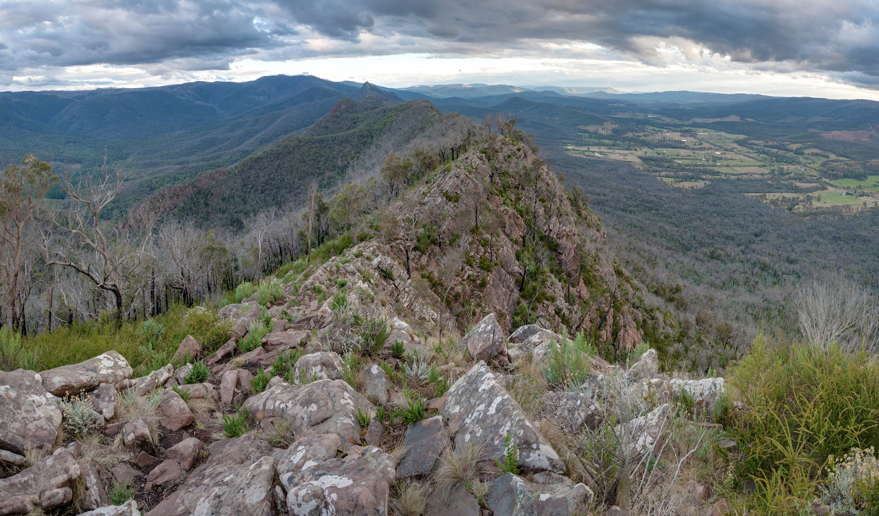 A 4 segment exposure blended panorama of the Cathedral Range, 150km north-east of Melbourne in Victoria, Australia. Taken with a 5D and 17-40mm lens.